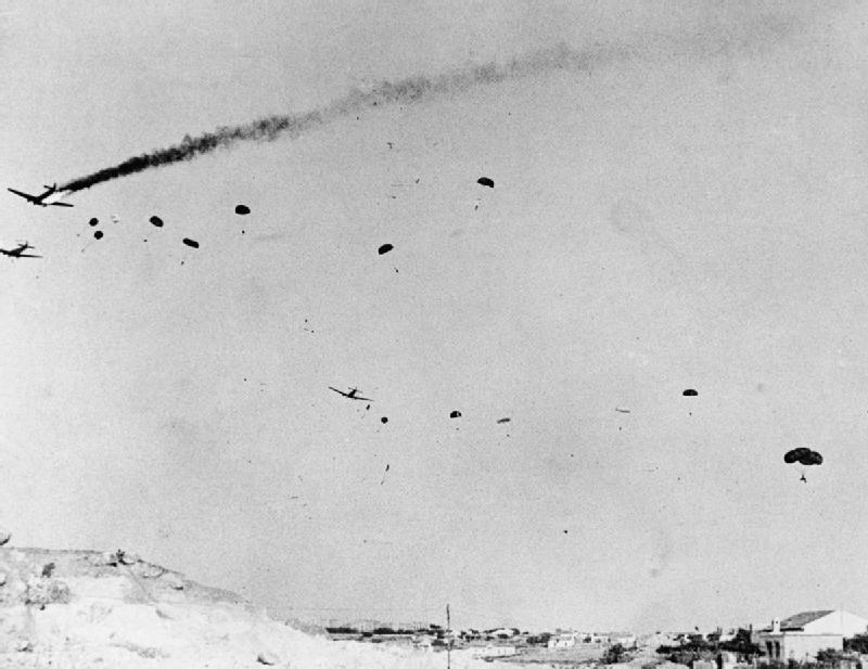 The German Invasion of Crete, May 1941 A blazing German troop-carrier (JU-52), hit by machine-gun fire from an entrenchment adjacent to the bombed area during the invasion of Crete, May 1941. Parachute troops and equipment are seen descending.